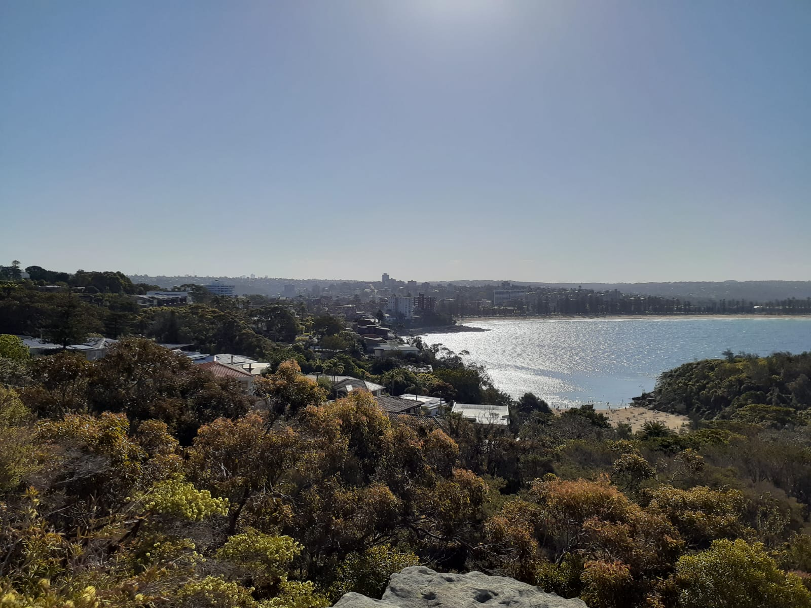 Photo of Bondi Beach